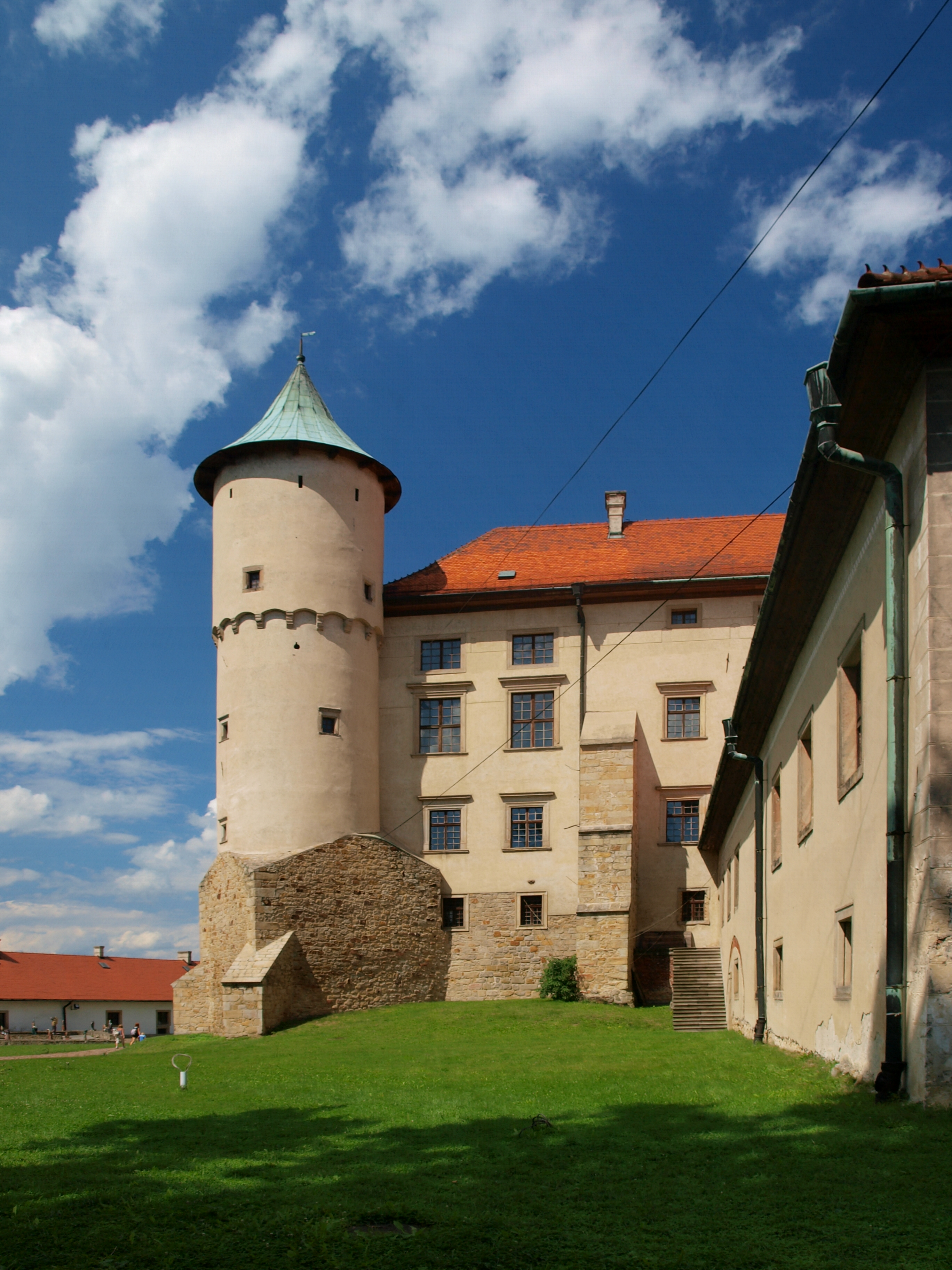 Nowy Wiśnicz castle